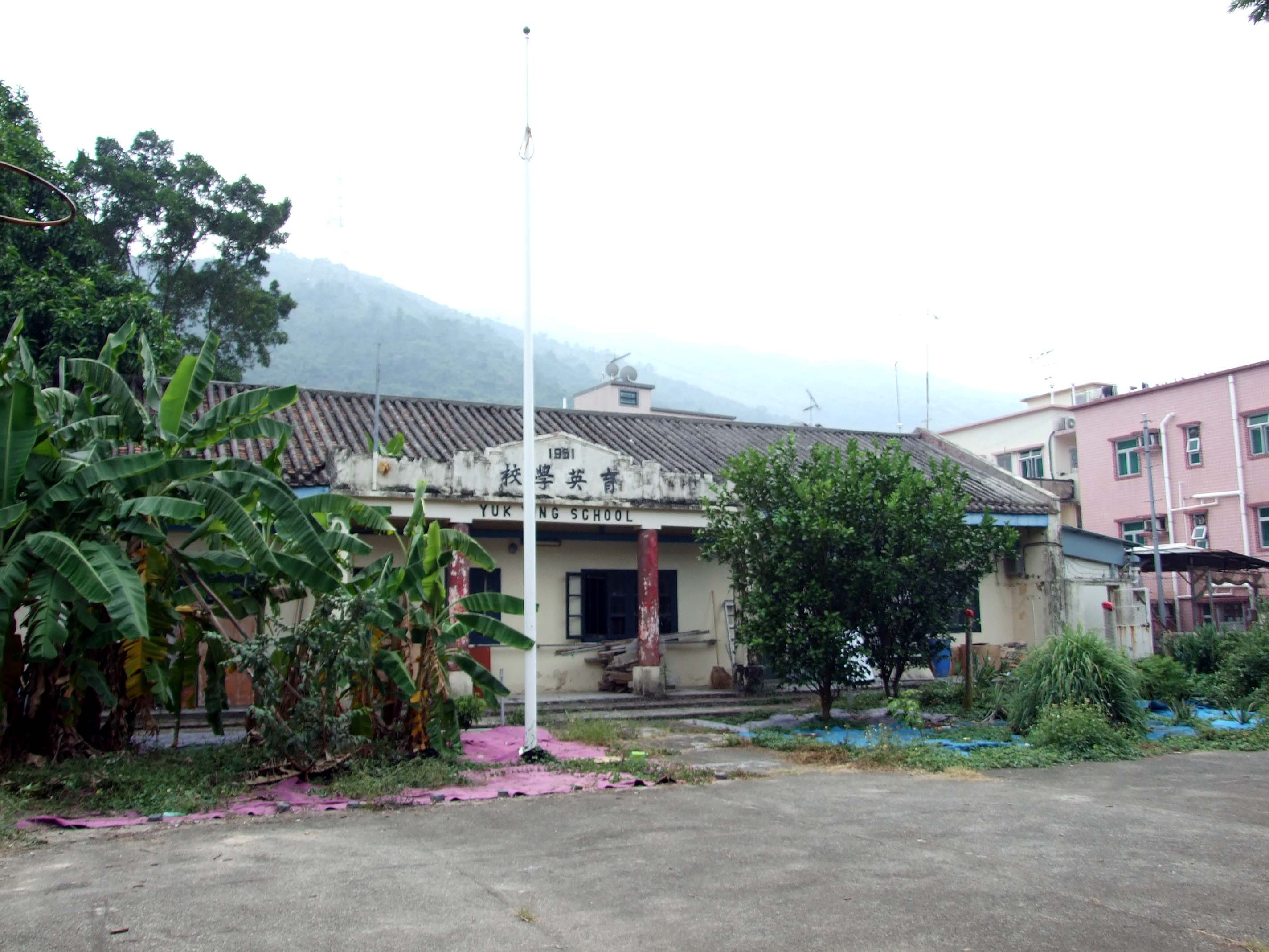 Yuk Ying School